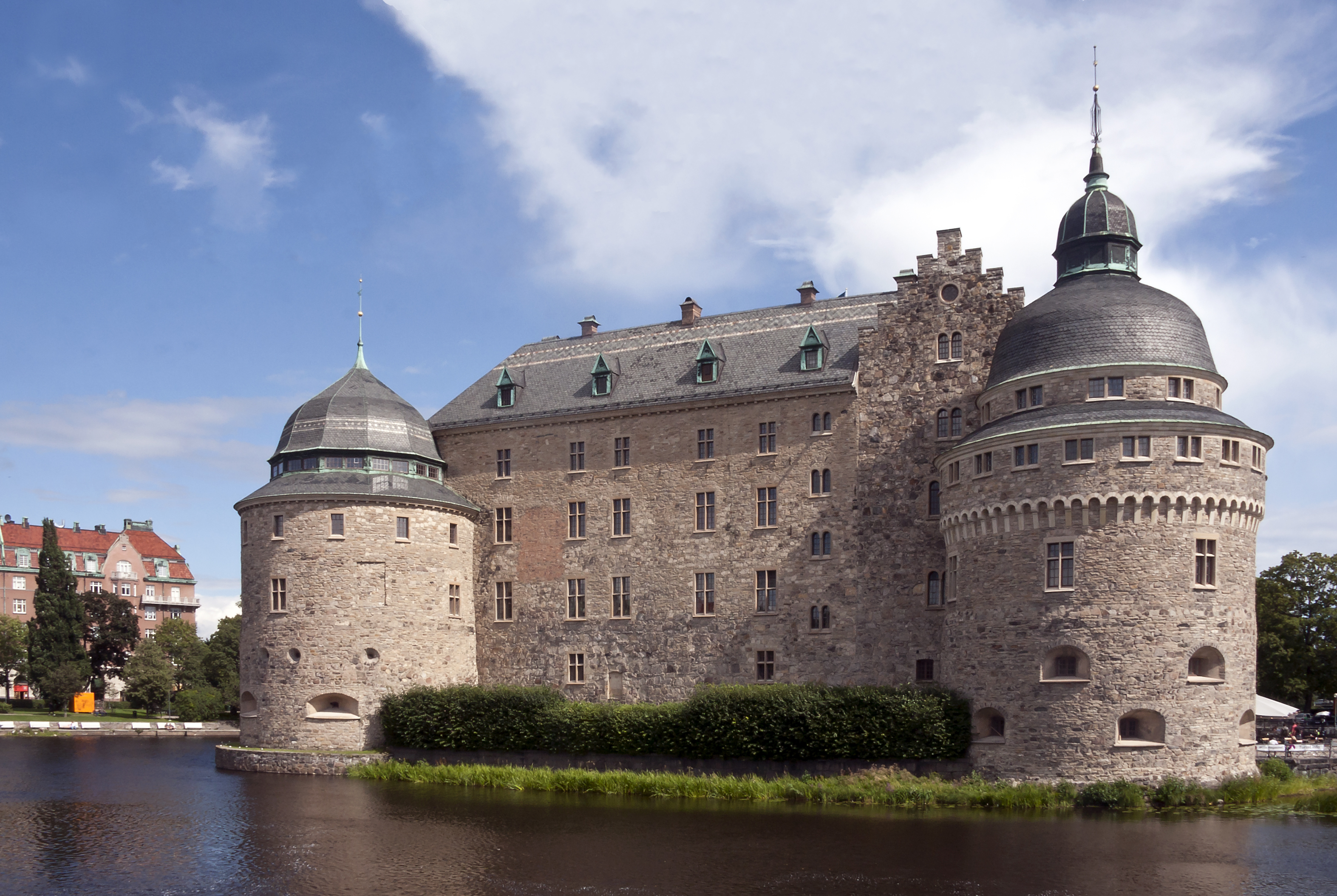 Örebro Castle in Örebro, Sweden.